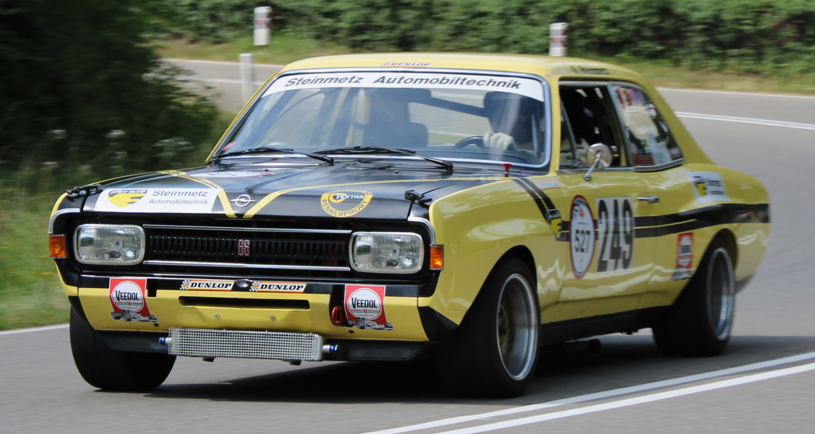 Steinmetz-Opel Commodore GS 3000 (1970) at Solitude Revival 2019